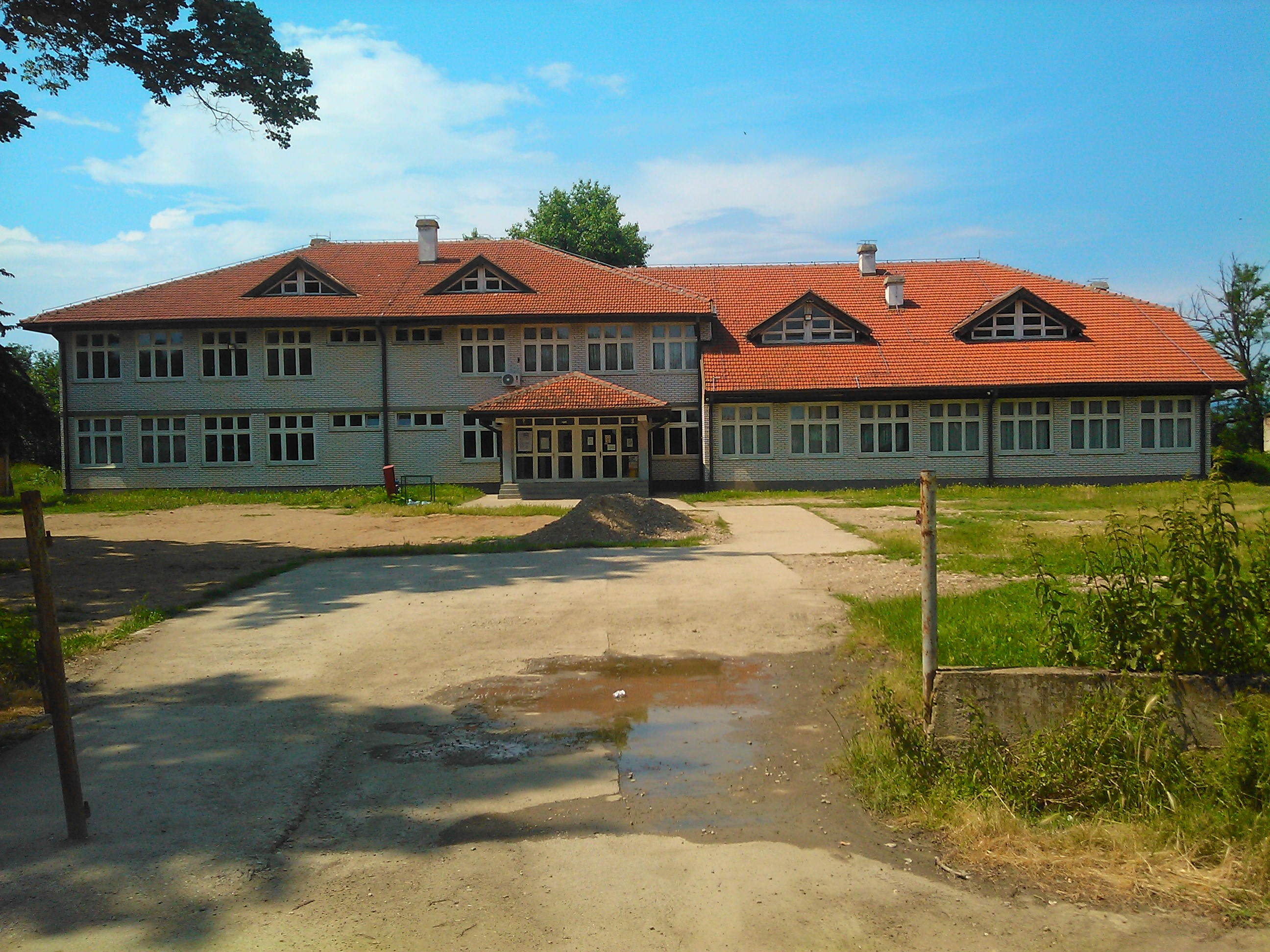 Osnovna škola u Bogojevcu